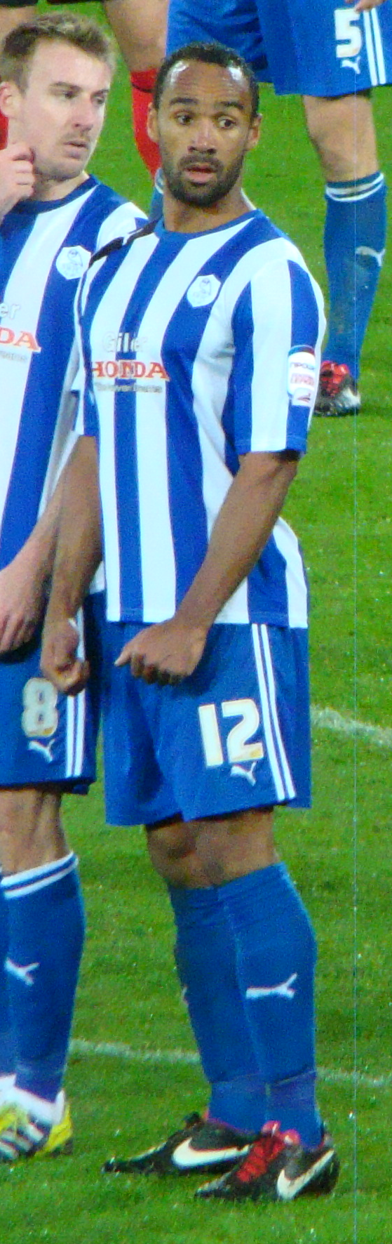 Chris O'Grady. Image cropped from original at flickr.